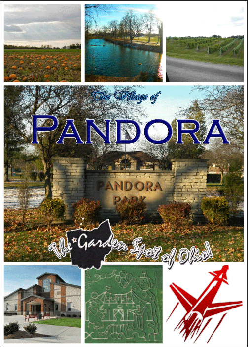 Self made collage of Pandora using my own photographs